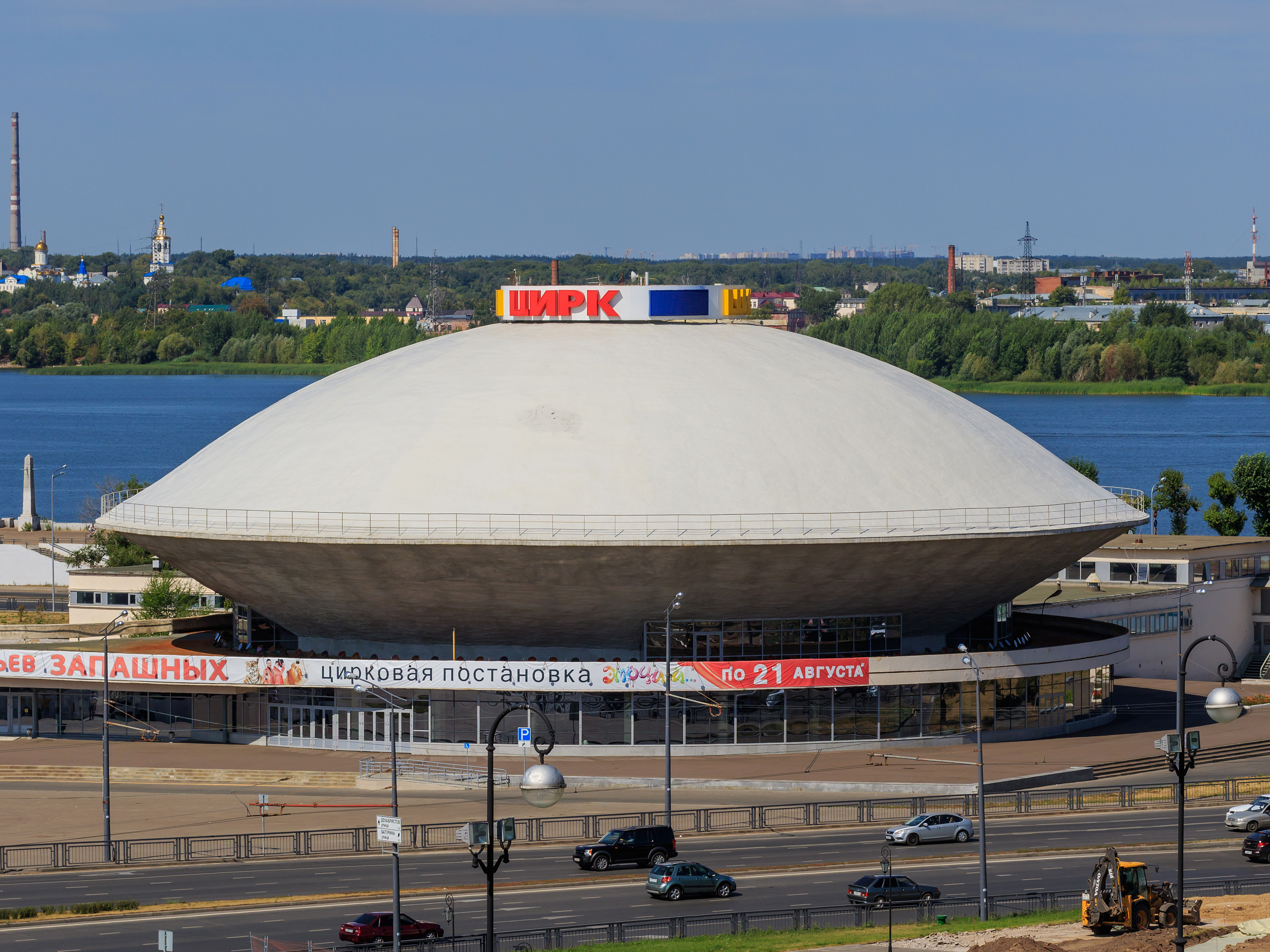 Building of the State Circus in Kazan, Russia